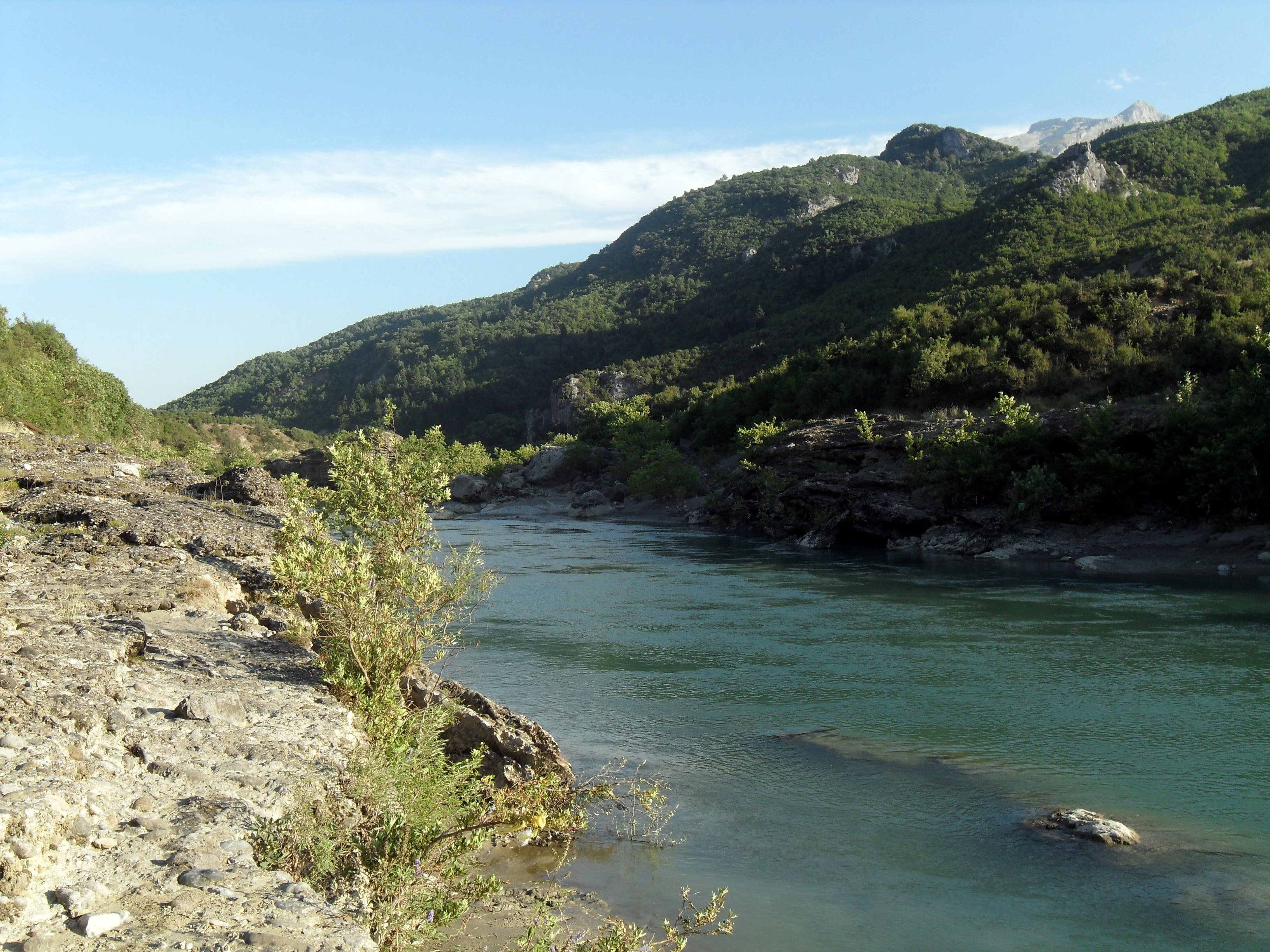 River Vjosa east of Permët